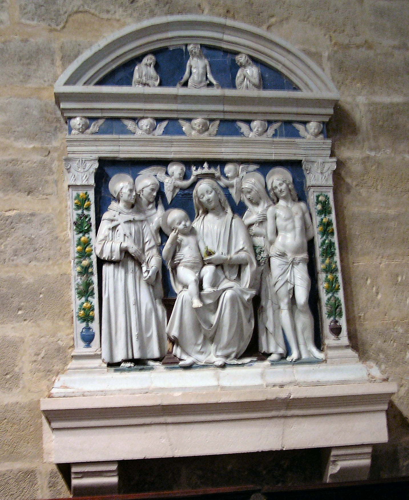 Andrea della Robbia workshop: Virgin of Granada, Cathedral of Seville